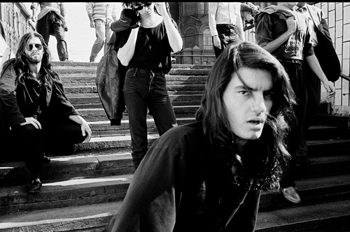 Russian rockband E.S.T. (Э.С.Т.) with lead singer Jean Sagadeev